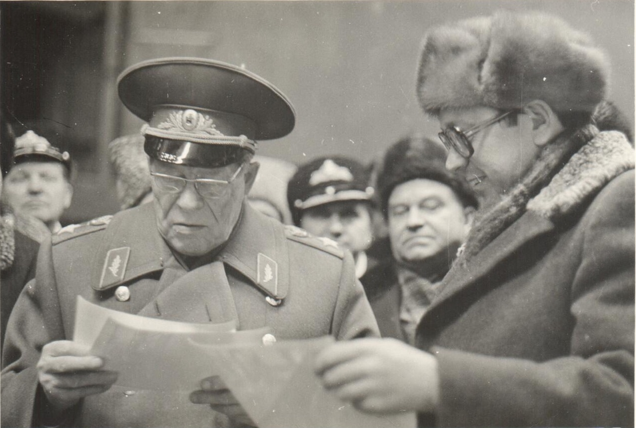 11.03.1983 На СРЗ "Нерпа". Д.Ф. Устинов и В.В. Мурко